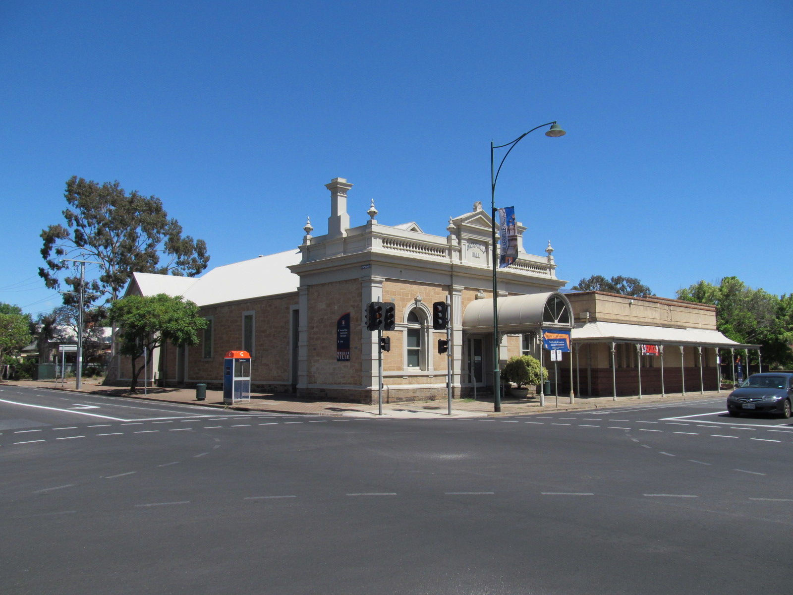 Walkerville Town Hall at the intersection of Walkerville Terrace and Stephen Terrace.